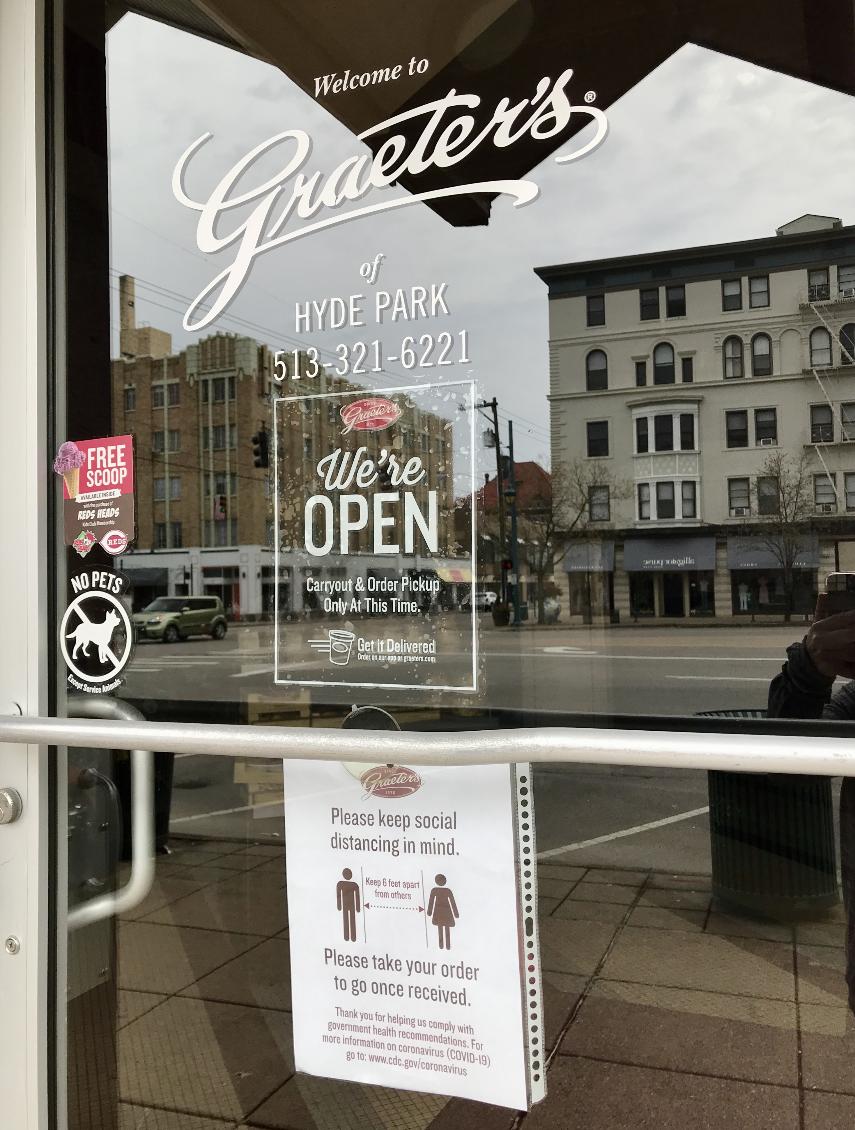 coronavirus signage